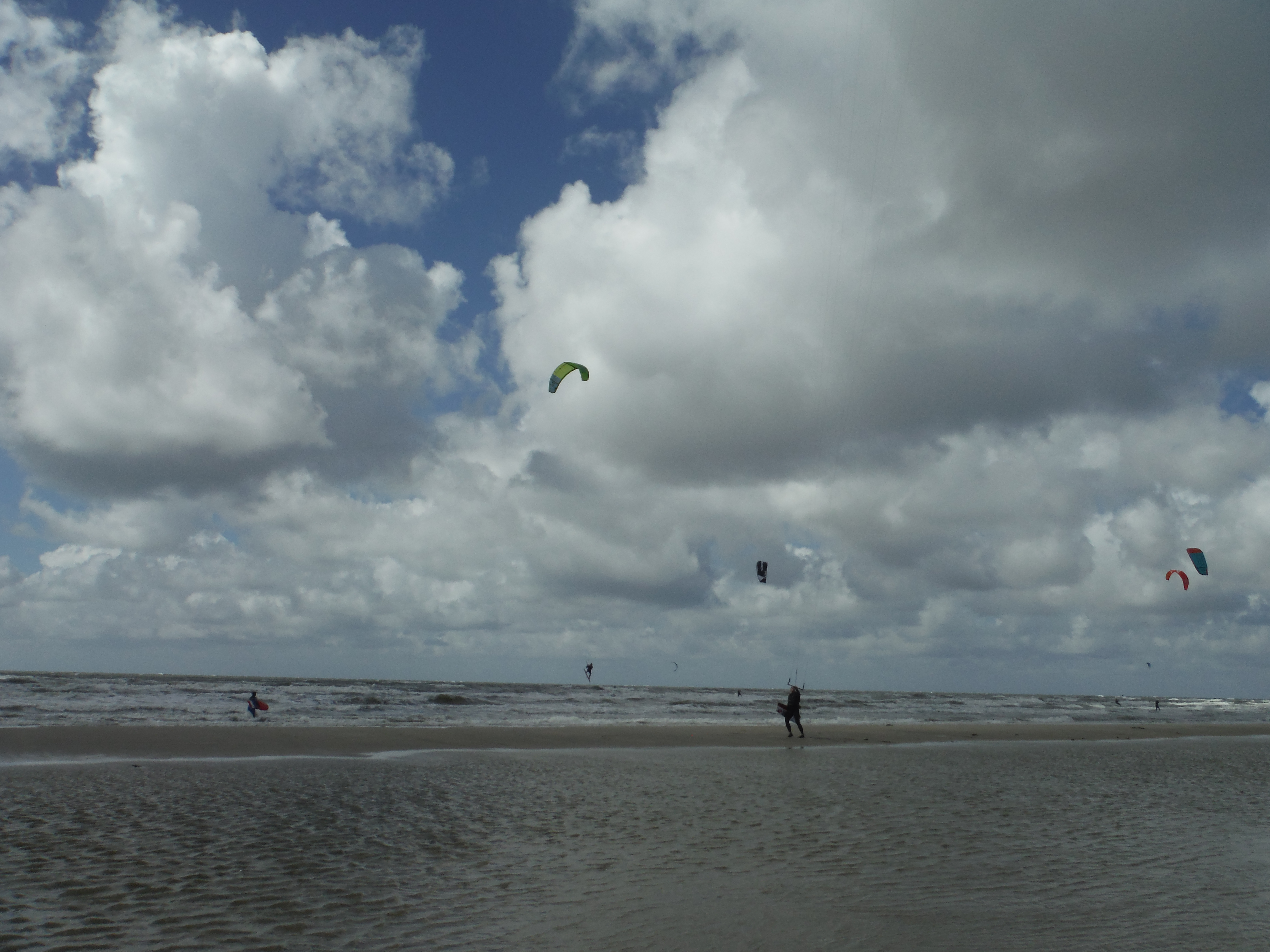 Kitesurfer in air at Rømø beach